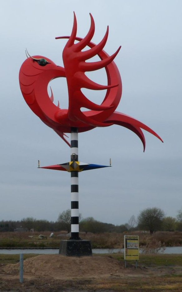 The Firebird, work of art in Parc Sandur, Emmen. Sculptor: Cornelis Huisman.